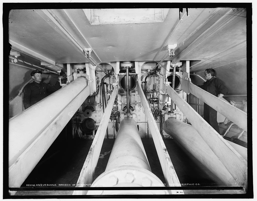 U.S.S. Vesuvius : breeches of dynamite guns. 1 negative : glass ; 8 x 10 in.